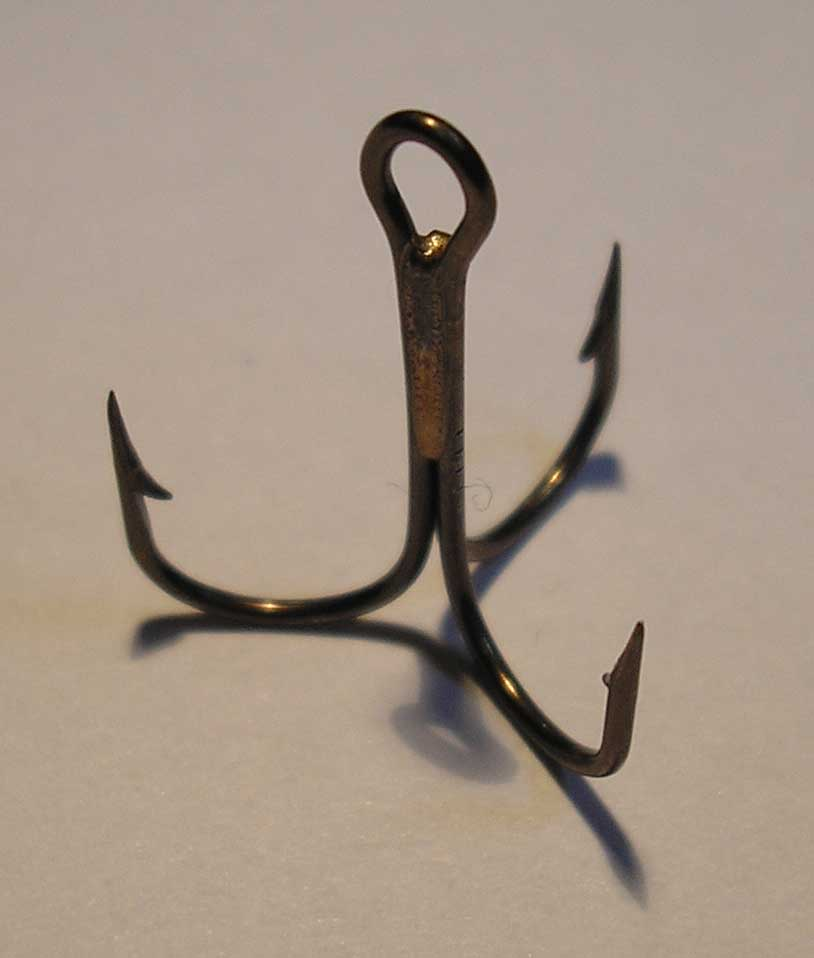 Treble hook